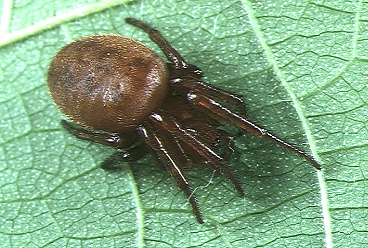 female Acusilas coccineus from Okinawa.